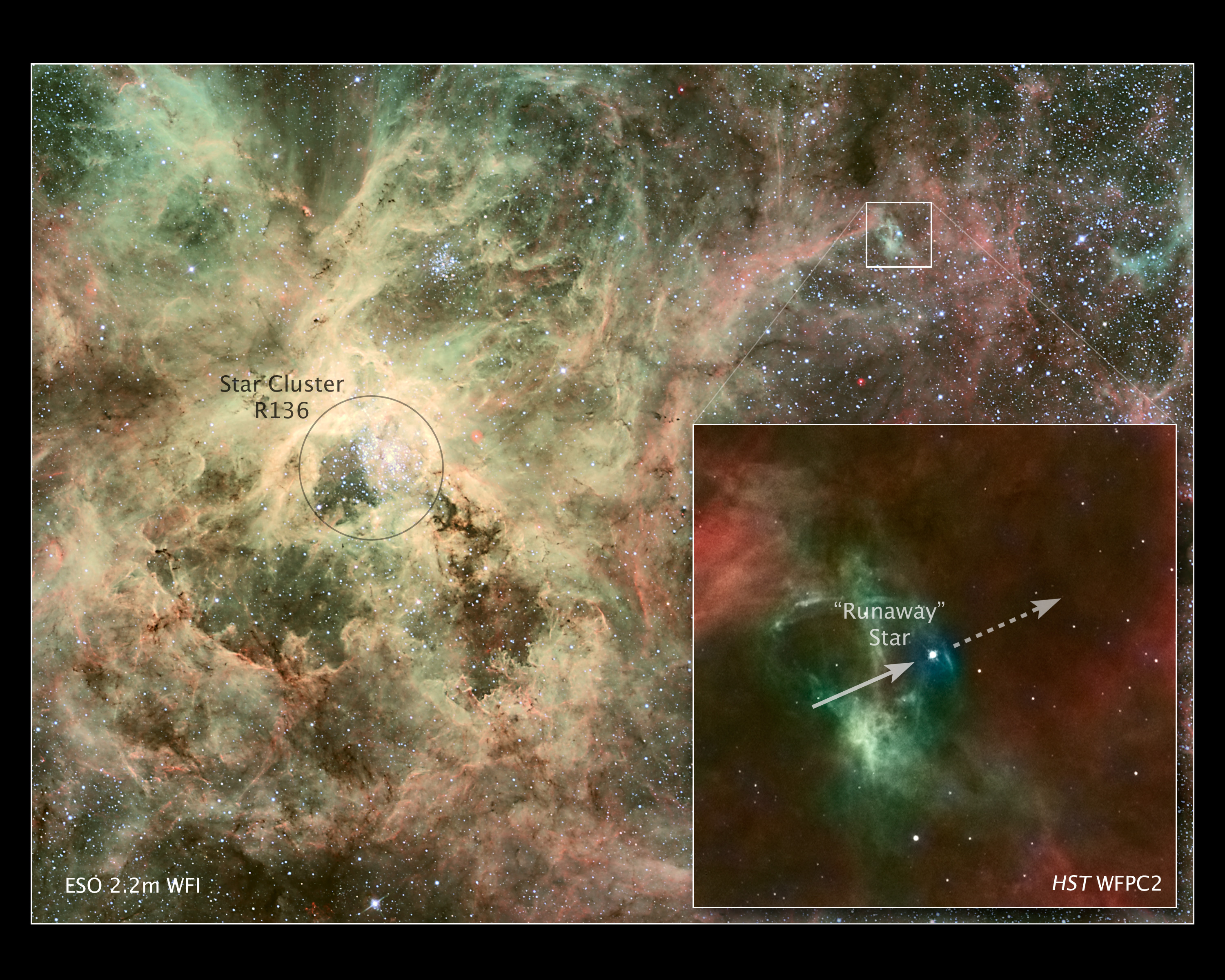 This image of the 30 Doradus Nebula, a rambunctious stellar nursery, and the enlarged inset photo show a heavyweight star that may have been kicked out of its home by a pair of heftier siblings. In the inset image at right, an arrow points to the stellar runaway and a dashed arrow to its presumed direction of motion. The image was taken by the Wide Field and Planetary Camera 2 (WFPC2) aboard the NASA/ESA Hubble Space Telescope. The heavyweight star, called 30 Dor #016, is 90 times more massive than the Sun and is travelling at more than 400 000 kilometres an hour from its home.